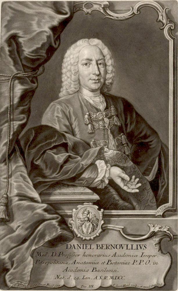 Portrait of Daniel Bernoulli (1700-1782)